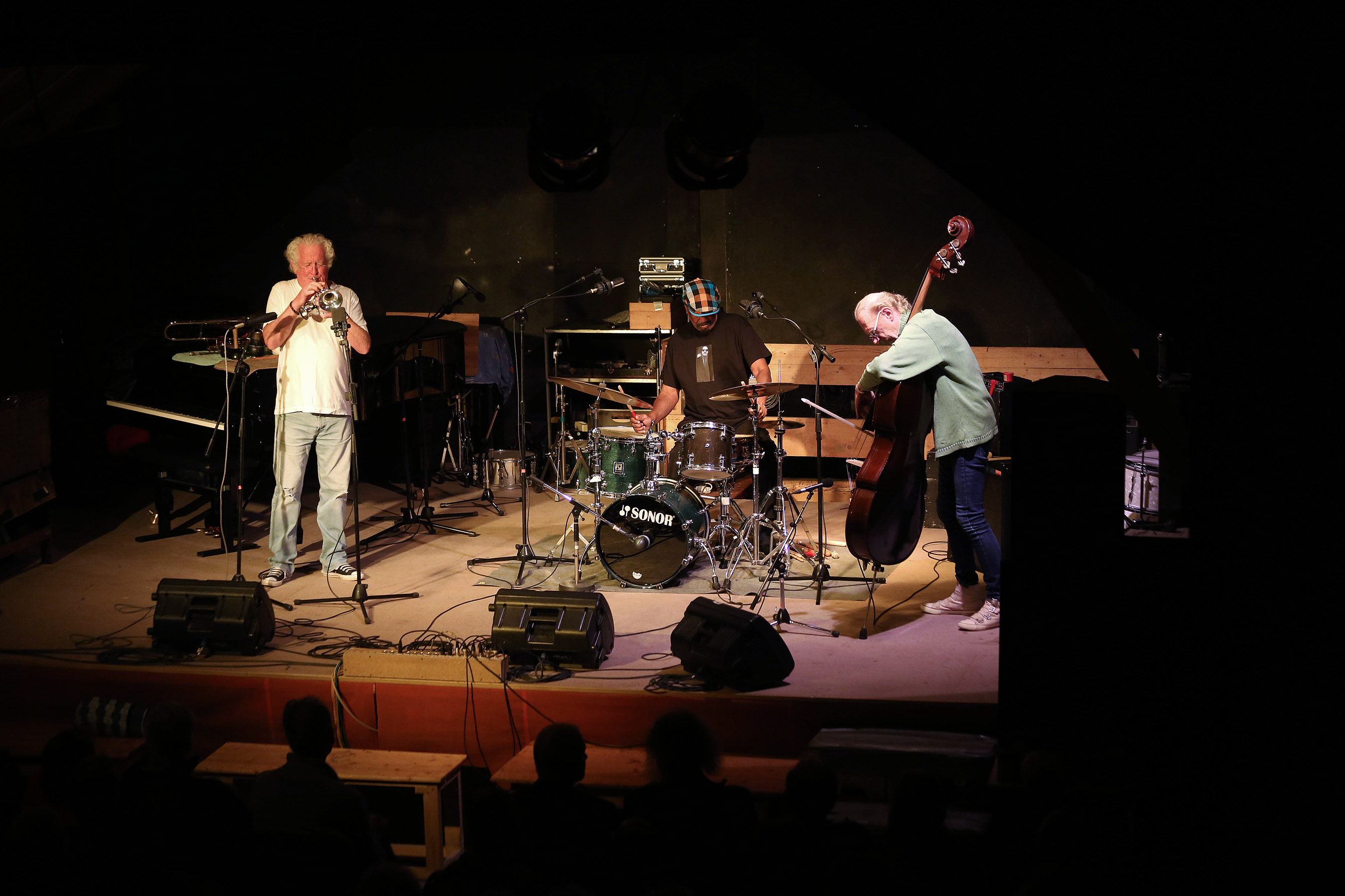 Dangerous Musics - Jon Corbett (tp.), Nick Stephens (b.), Louis Moholo (dr.) - Ulrichsberger Kaleidophon (Ulrichsberg, Upper Austria)